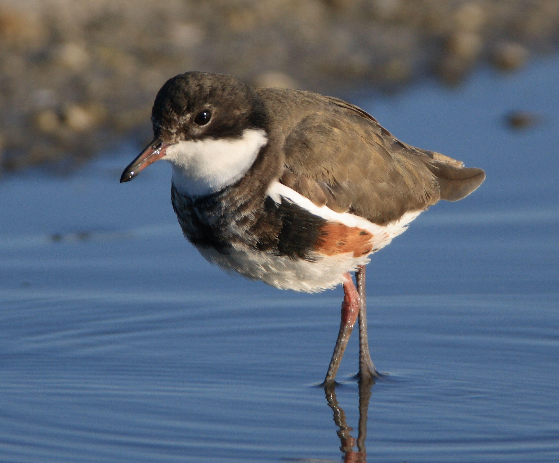 Red-kneed Dotterel (Erythrogonys cinctus), Werribee, Victoria